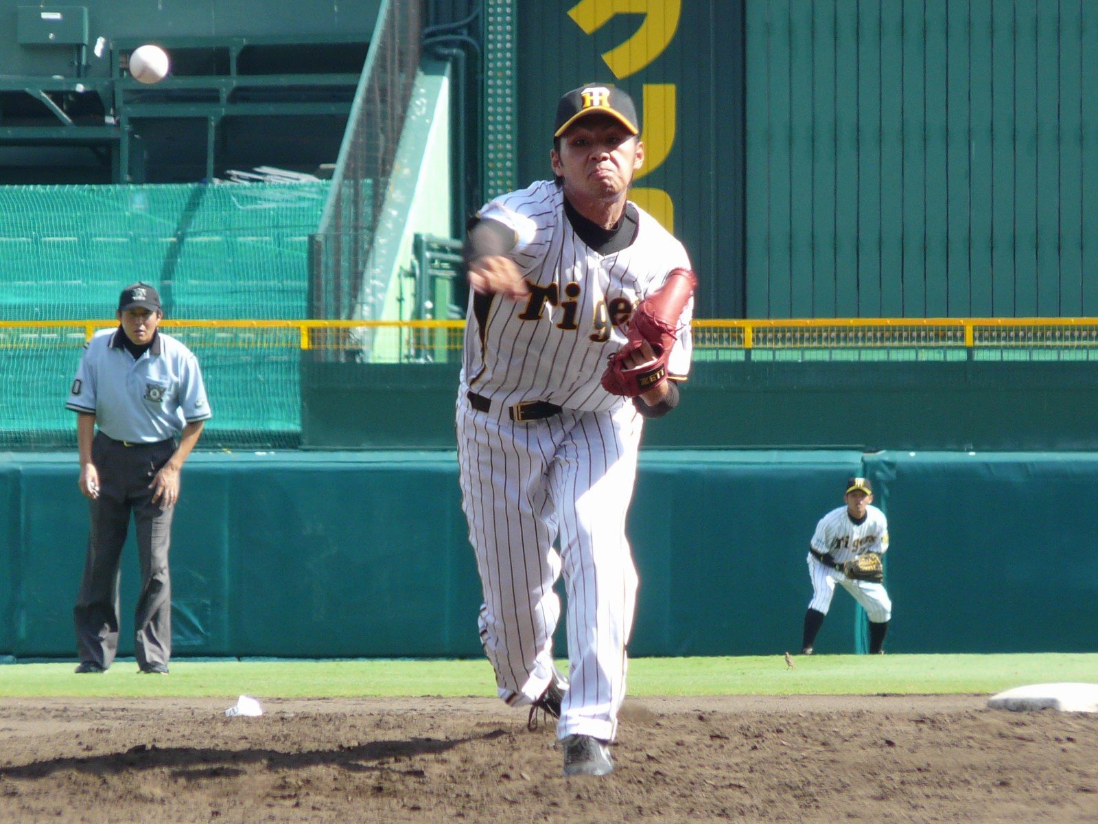 Hanshin Tigers/Ryunosuke Yokoyama